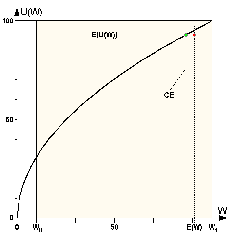 Risk aversion, type 1, case 0